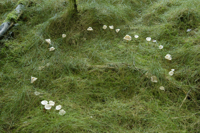 Rhodocollybia butyracea asema from Commanster, Belgium. The determination of the species shown in this picture has been verified.